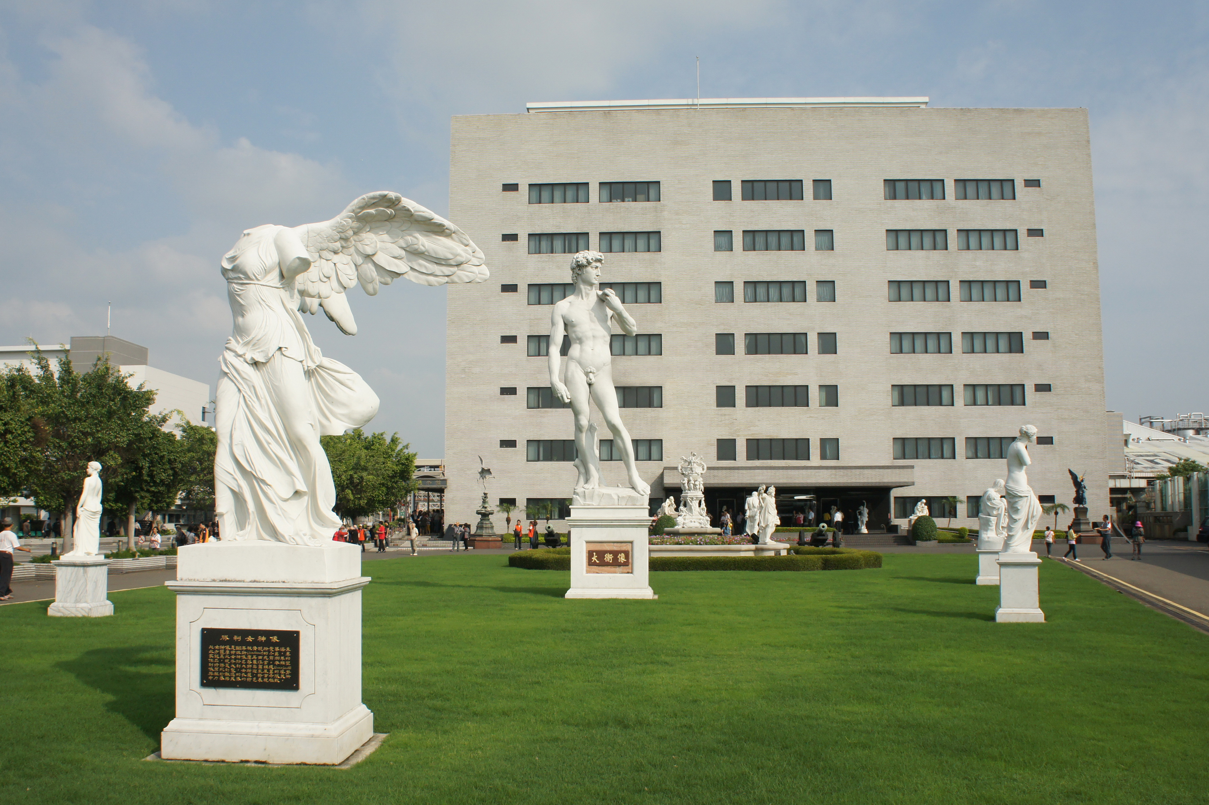 Chi Mei Museum, Tainan, Taiwan. (5th to 8th floor of the building in the background)